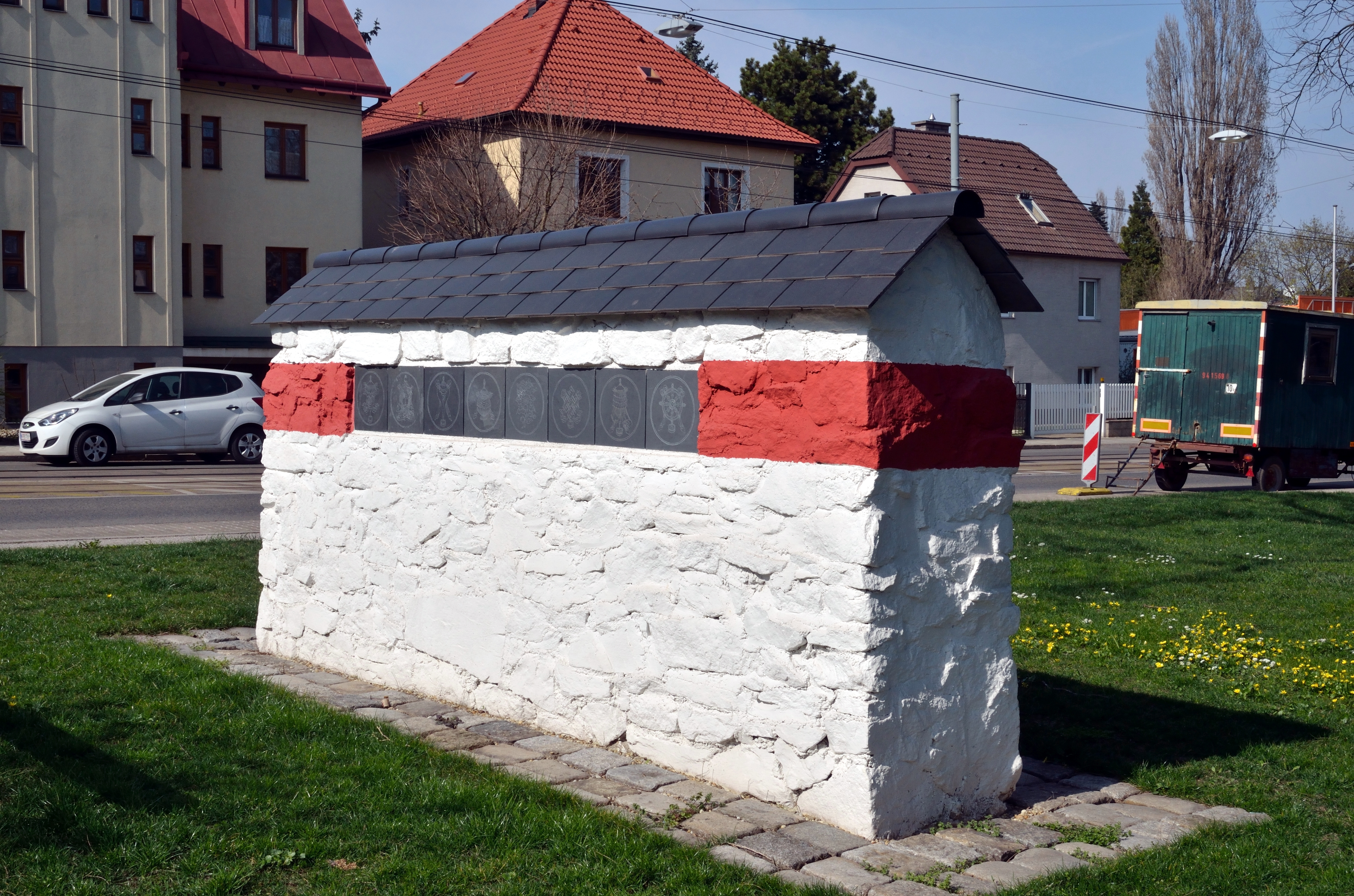 The Druk Yul park is a small park in Liesing, Vienna between Speisingerstraße and Rosenhügelstraße. It is related to Bhutan.